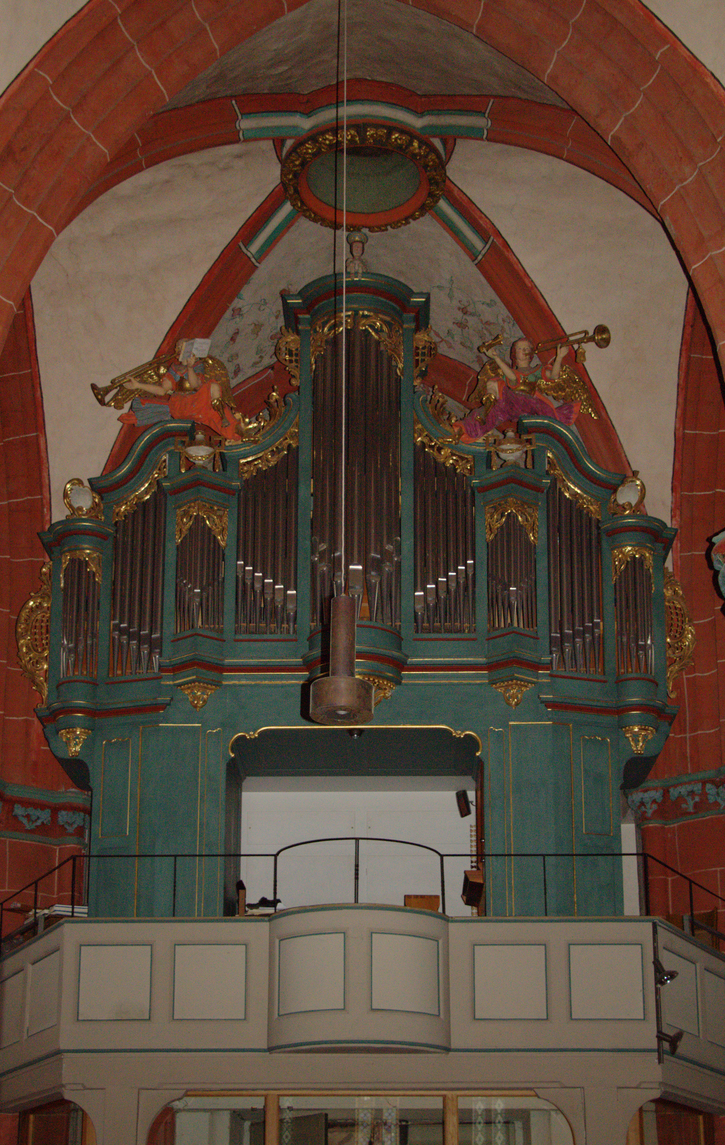 Potestant Church "Liebfrauenkirche" (Organ) in Schotten, Schotten, Hesse, Germany